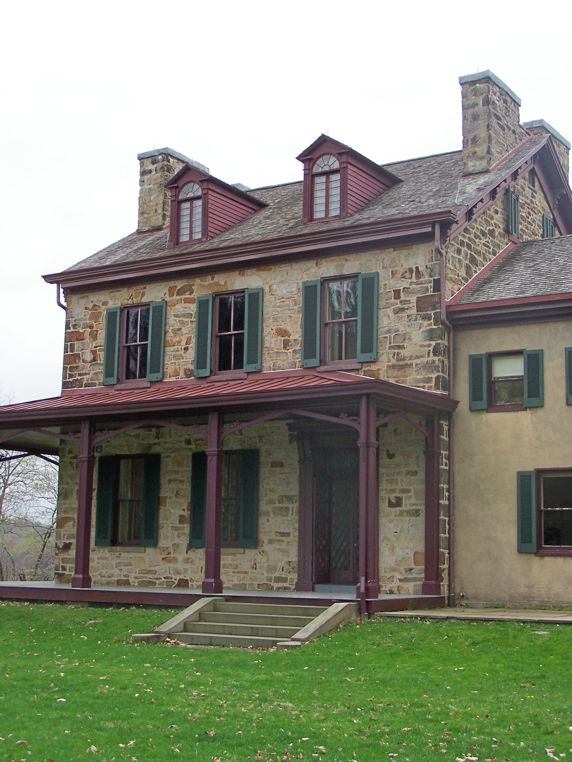 The house of Albert Gallatin at Friendship Hill National Historic Site, Fayette County, Pennsylvania. Image taken by ScottyBoy900Q April 14, 2006.